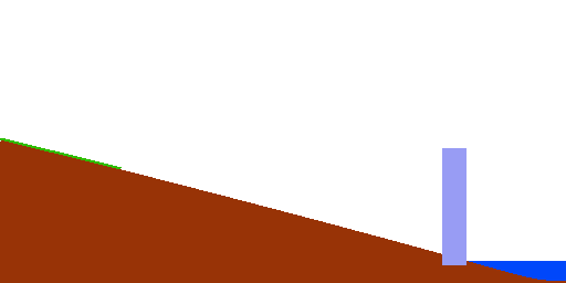 Reclamation works - 04